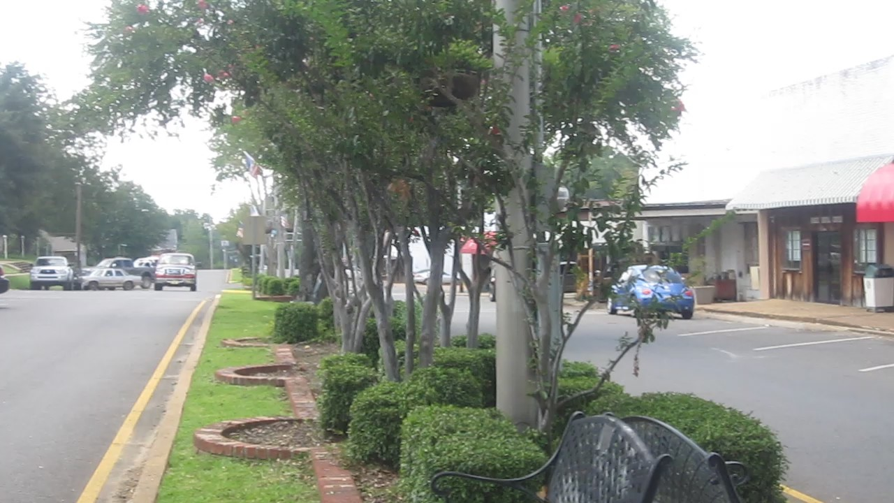 Downtown Jonesboro, LA, along the Jimmie Davis Blvd., Jonesboro, LA